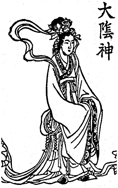 God of Taion. 太陰神